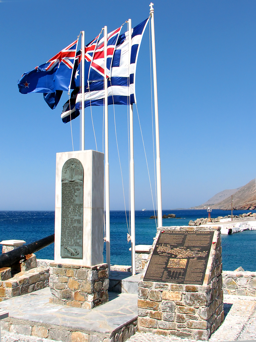 Monument commemorating the evacuation by navy warships of British and ANZAC troops after the Battle of Crete in May 1941.